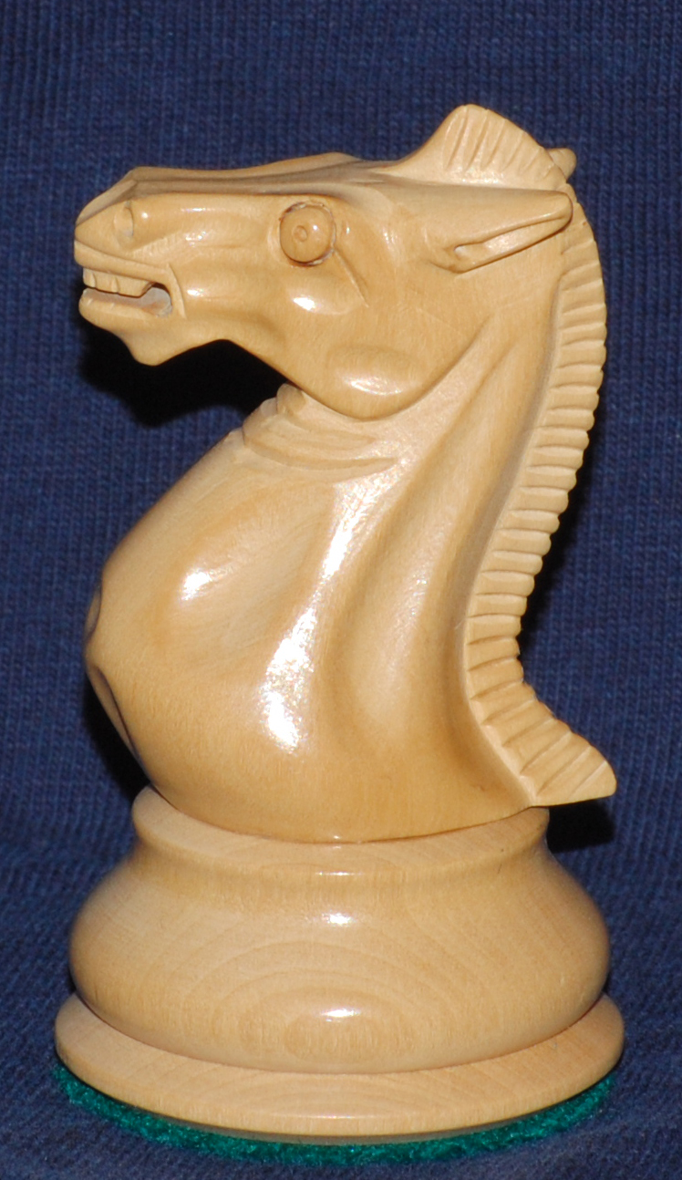 Knight from my House of Staunton "Marshall" chess set